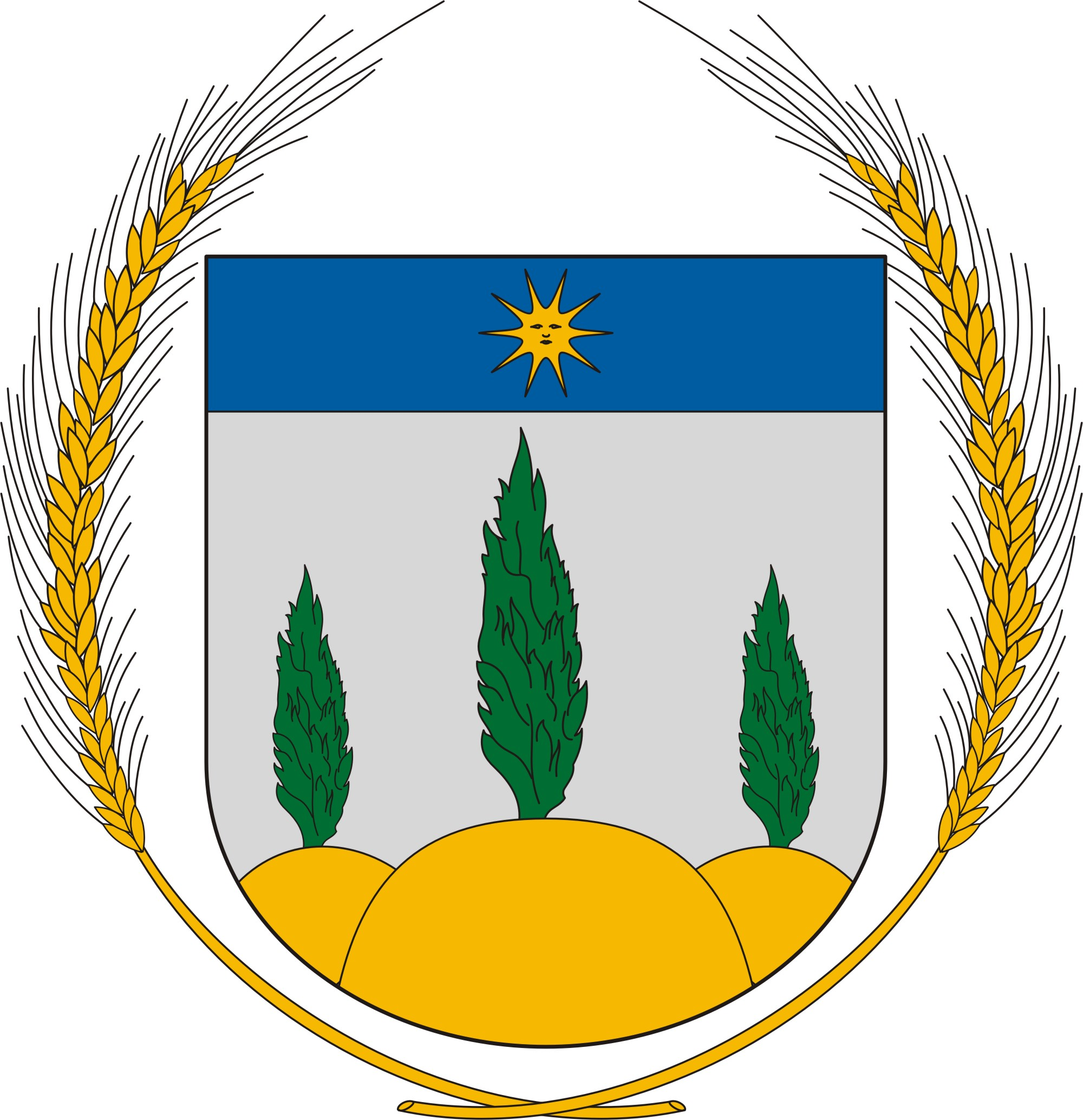 Coat of Arms of Hungarian village Kéleshalom